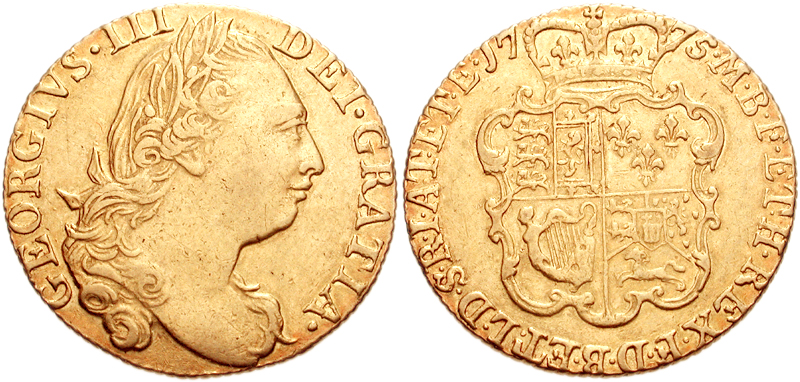 Hanover. George III. 1760-1820. AV Guinea (24mm, 8.32 g, 6h). London mint. Dated 1775. Fourth laureate and draped bust right Crowned and garnished royal shield.